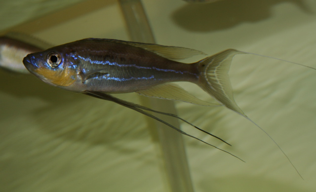 Benthochromis tricoti (male) Photo: Dr. David Midgley own photo Category:Cichlid images